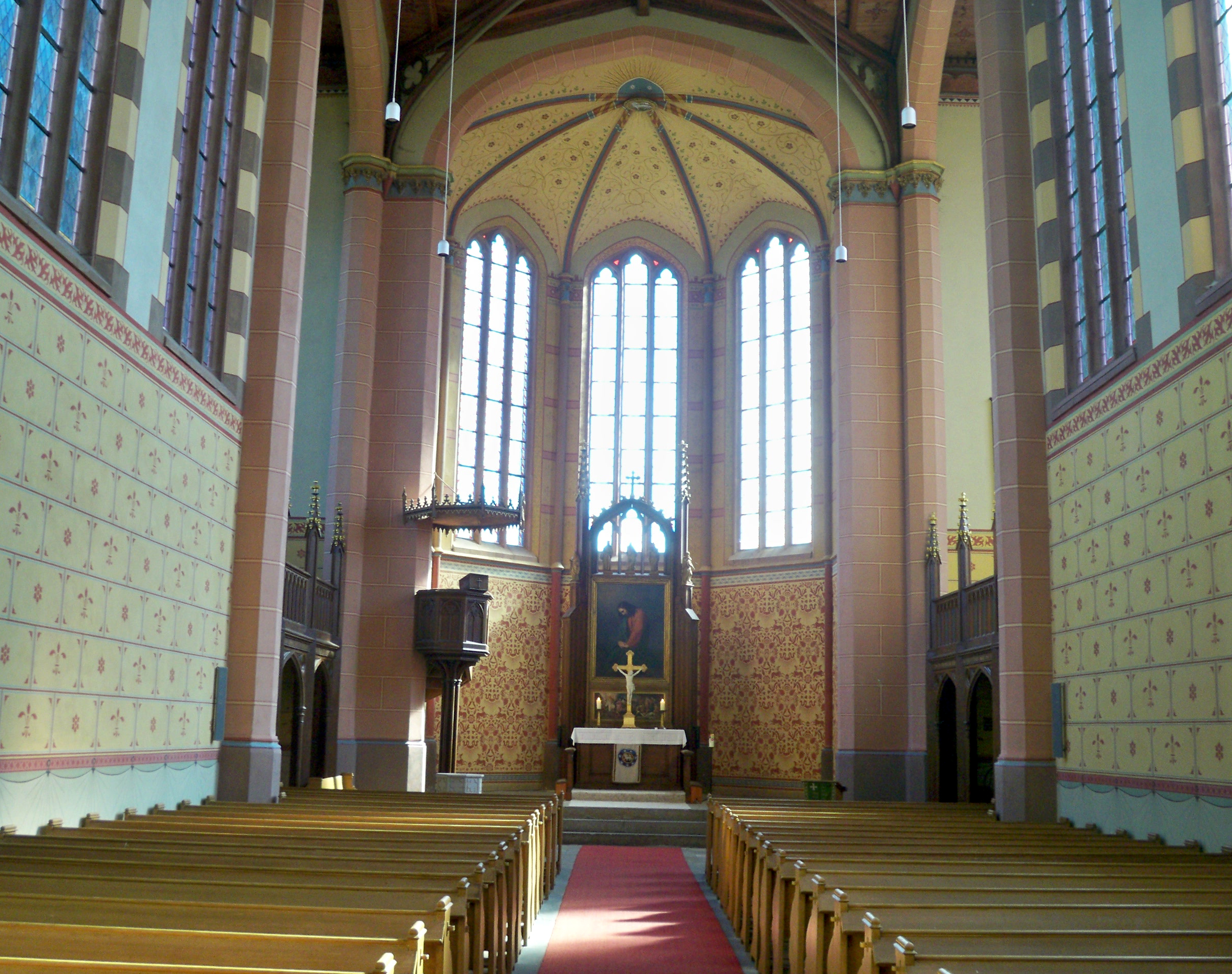 Letzlingen, Saxony-Anhalt, interior of Schlosskirche (castle church) towards altar